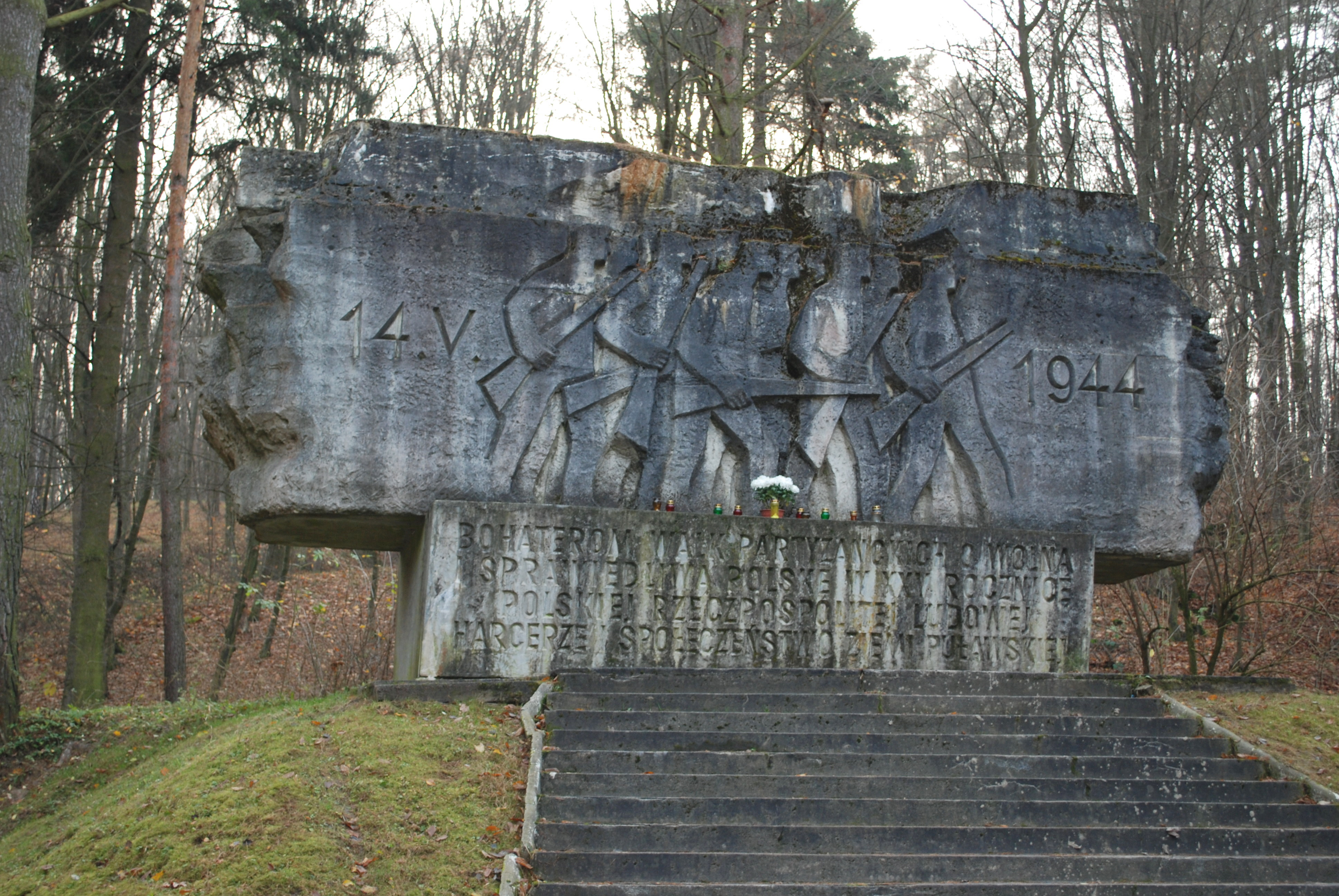 The monument of partisan battle during II World War in Rąblów, Poland.